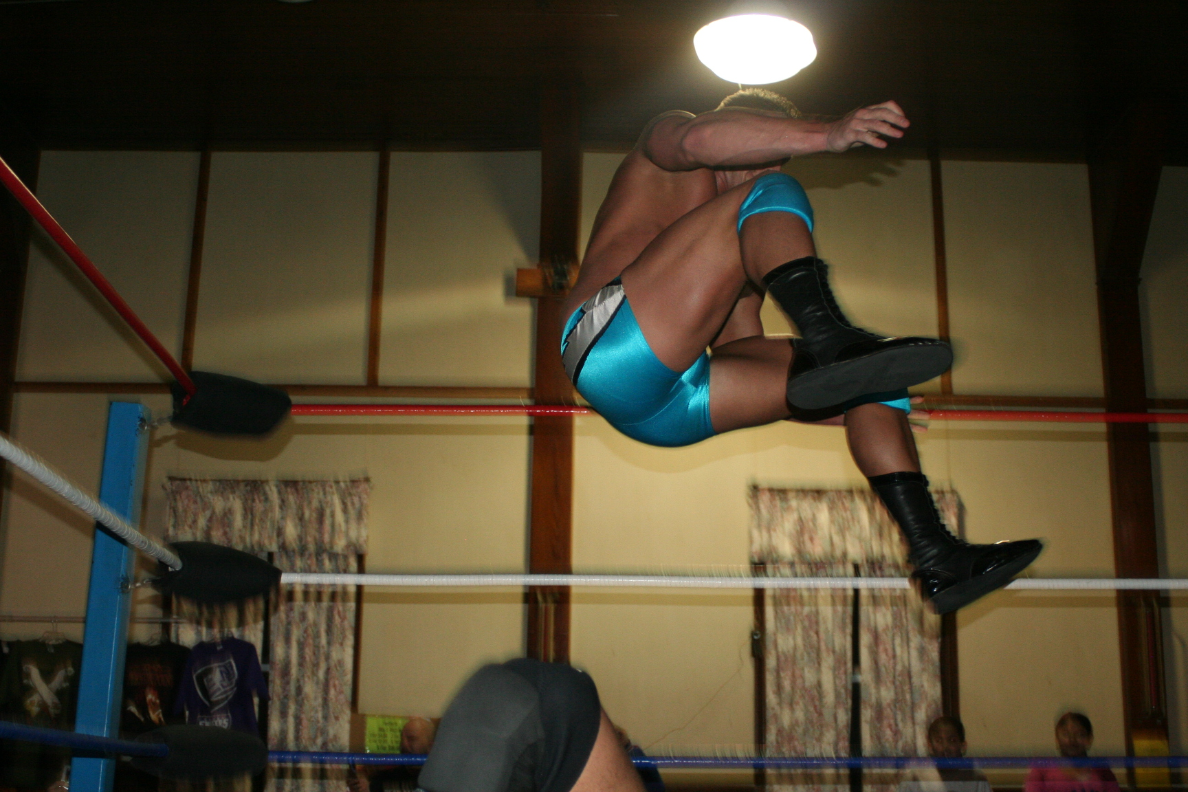 the wrestler Ken Doane performing his finisher